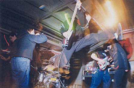 Grace Like Winter in Grafton, North Dakota, 1999